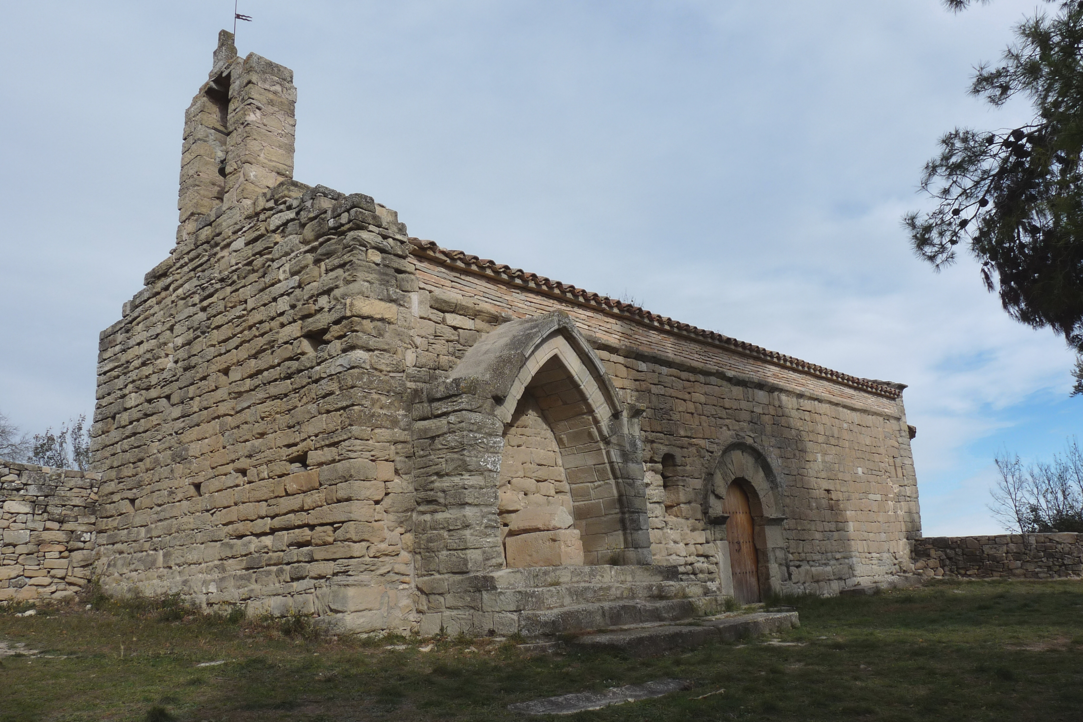 Hermitage of Sant Salvador, Figuerola (les Piles)